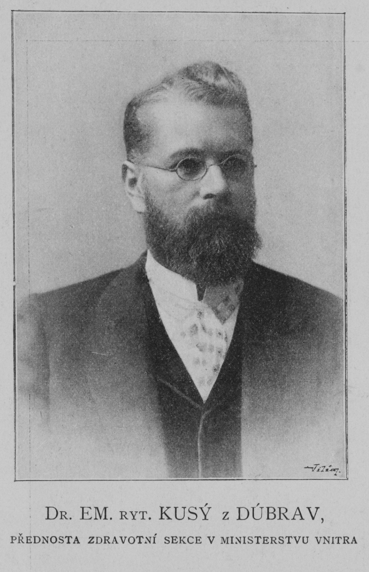 Portrait of Emanuel Kusý (1844-1905), public surgeon and epidemiologist from Moravia